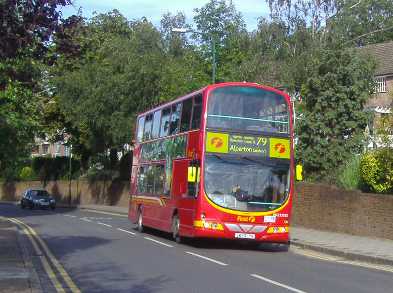 King Edward VII park, not Hyde Park. And Wembley's much nicer anyway.